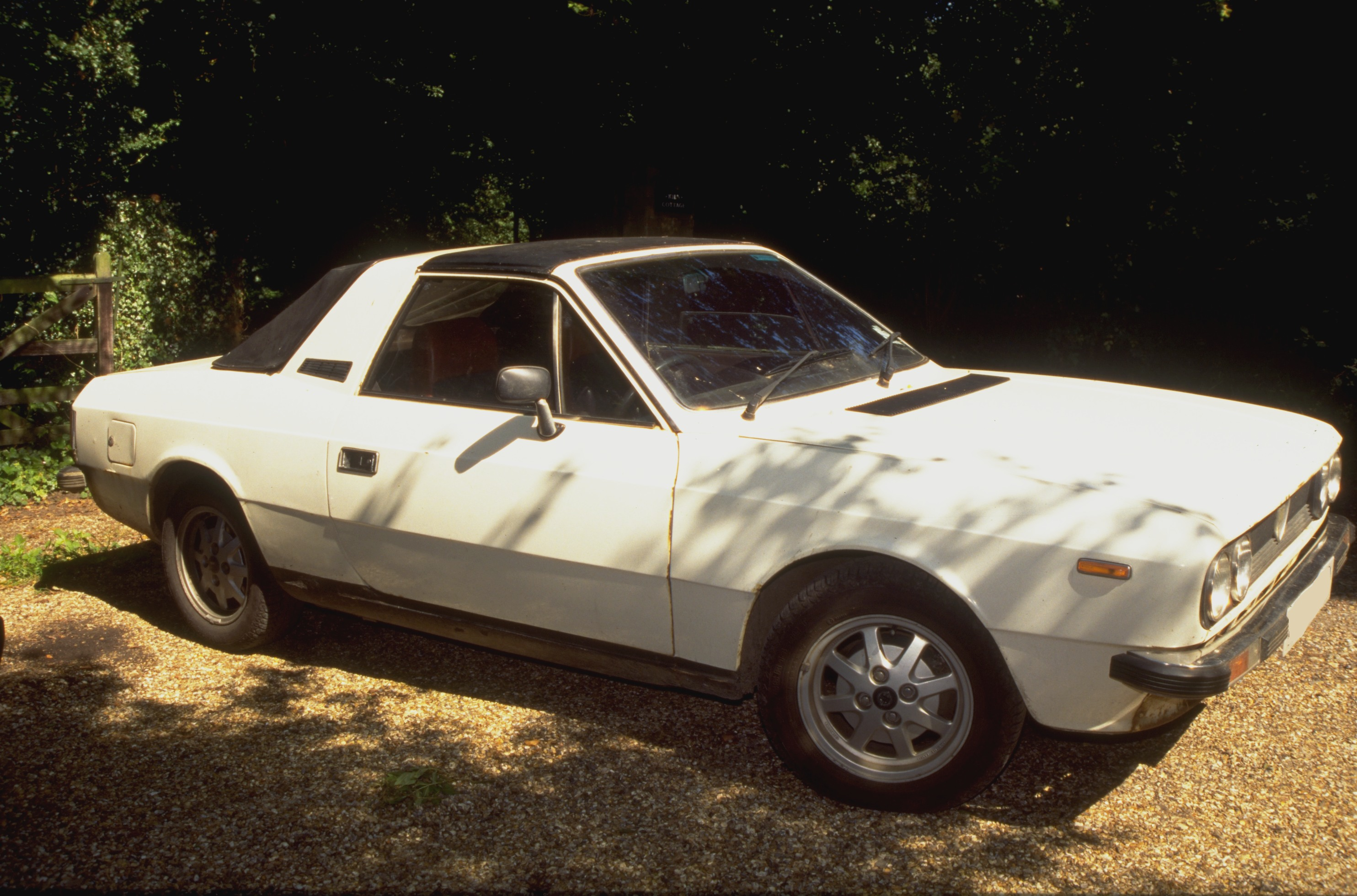 Two-liter Lancia Beta Series One Spider with the roof on.